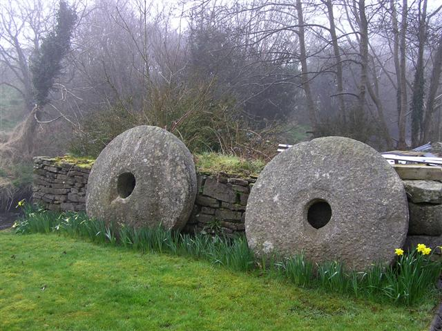 Millstones at Ednashanlagh. They are propped against the remains of the old corn-mill beside the river.